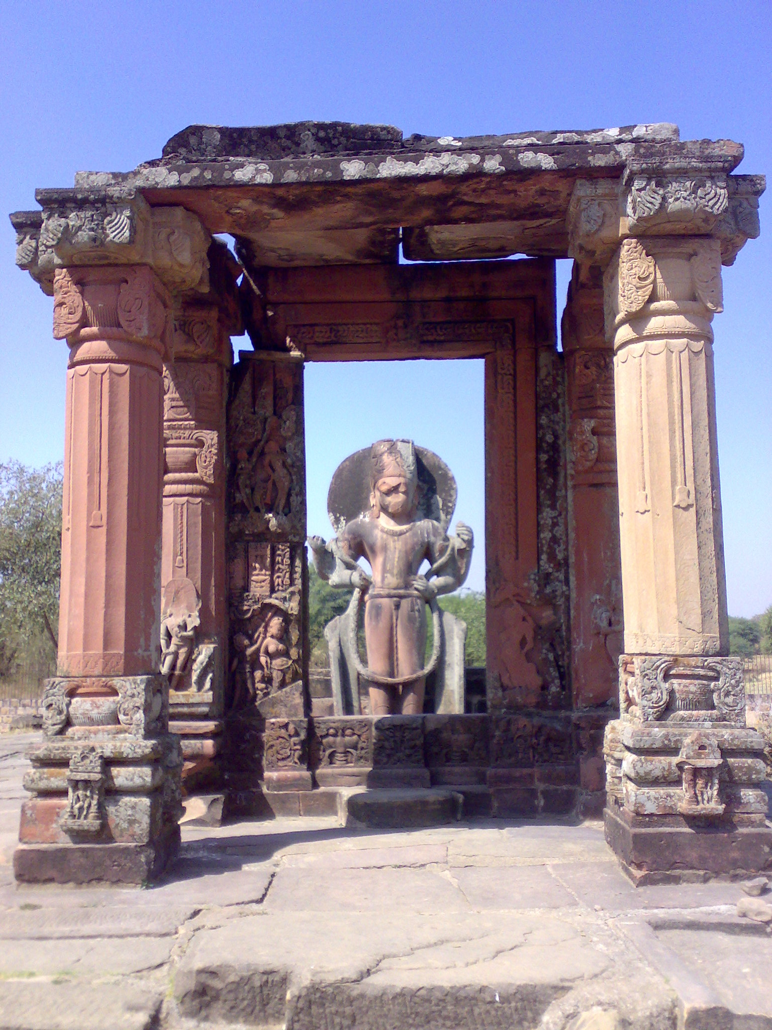 Eran near Bina